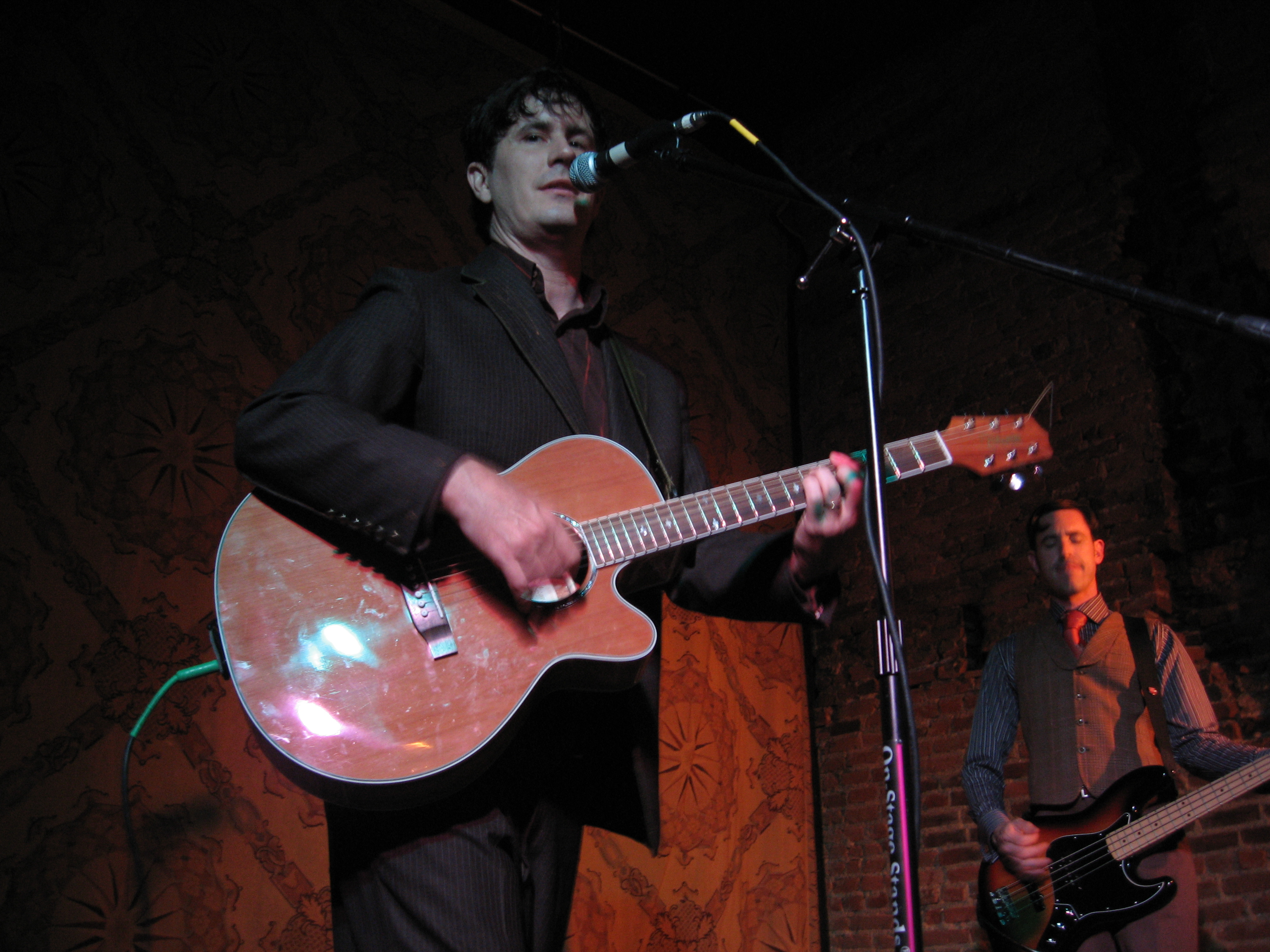 The Mountain Goats at the northstar bar